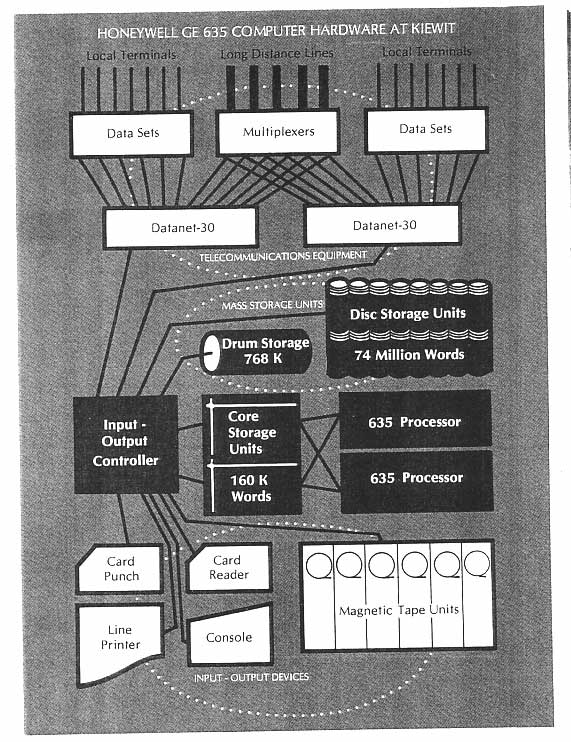 Honeywell GE 635 Computer Hardware at Kiewit, from The Kiewit Computing Center and the Dartmouth Time-Sharing System - Dartmouth College, early 1971.